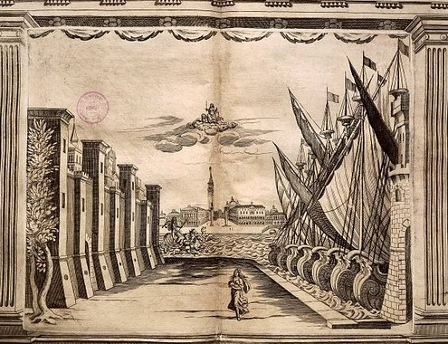 Set design for a production at the Teatro Novissimo showing Venice in the background